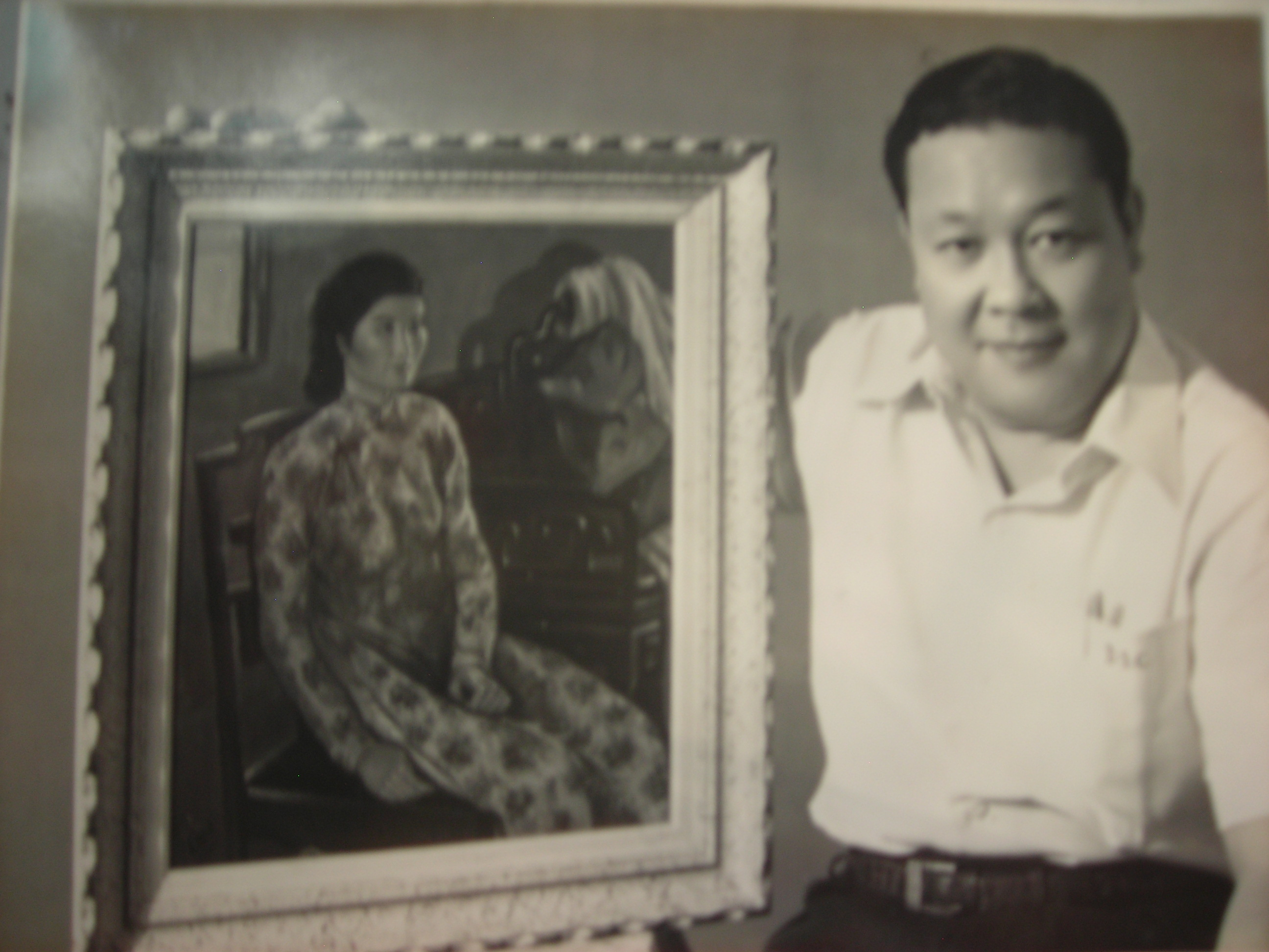 My father, Đào Sĩ Chu, artist painter in 1952, photo taken from my family's album.